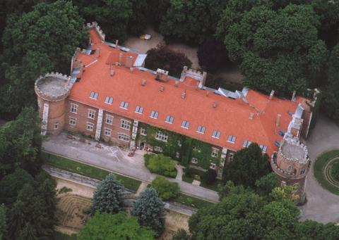 Görcsöny, Hungary, aerialphotography (Benyovszky Mansion)